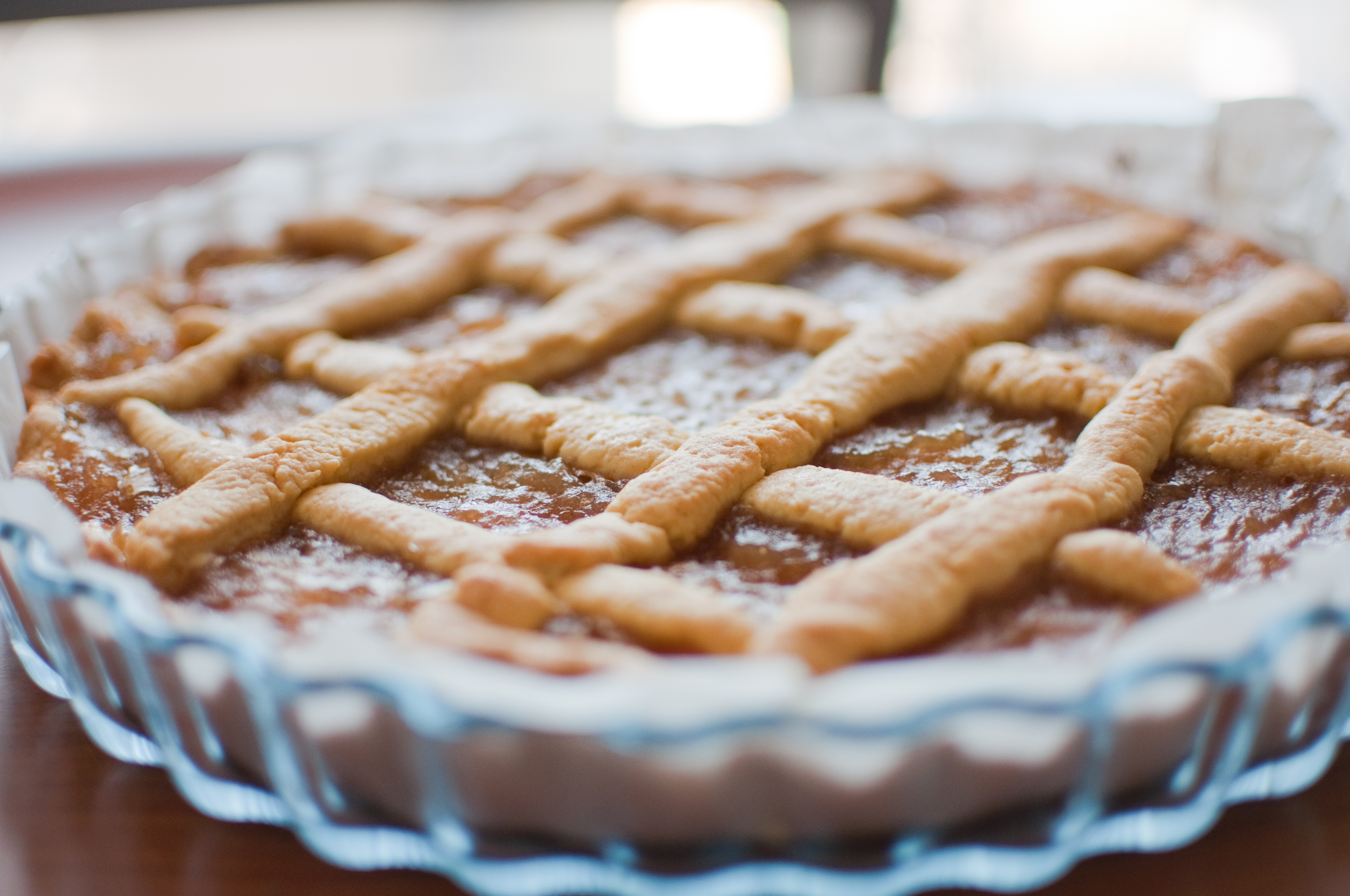 Crostata with lemon and ginger filling.